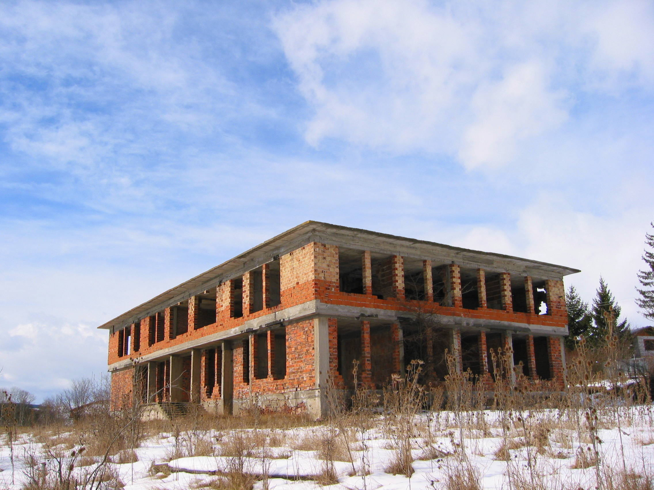 The building of the school, Velkovtci, Breznik, Bulgaria